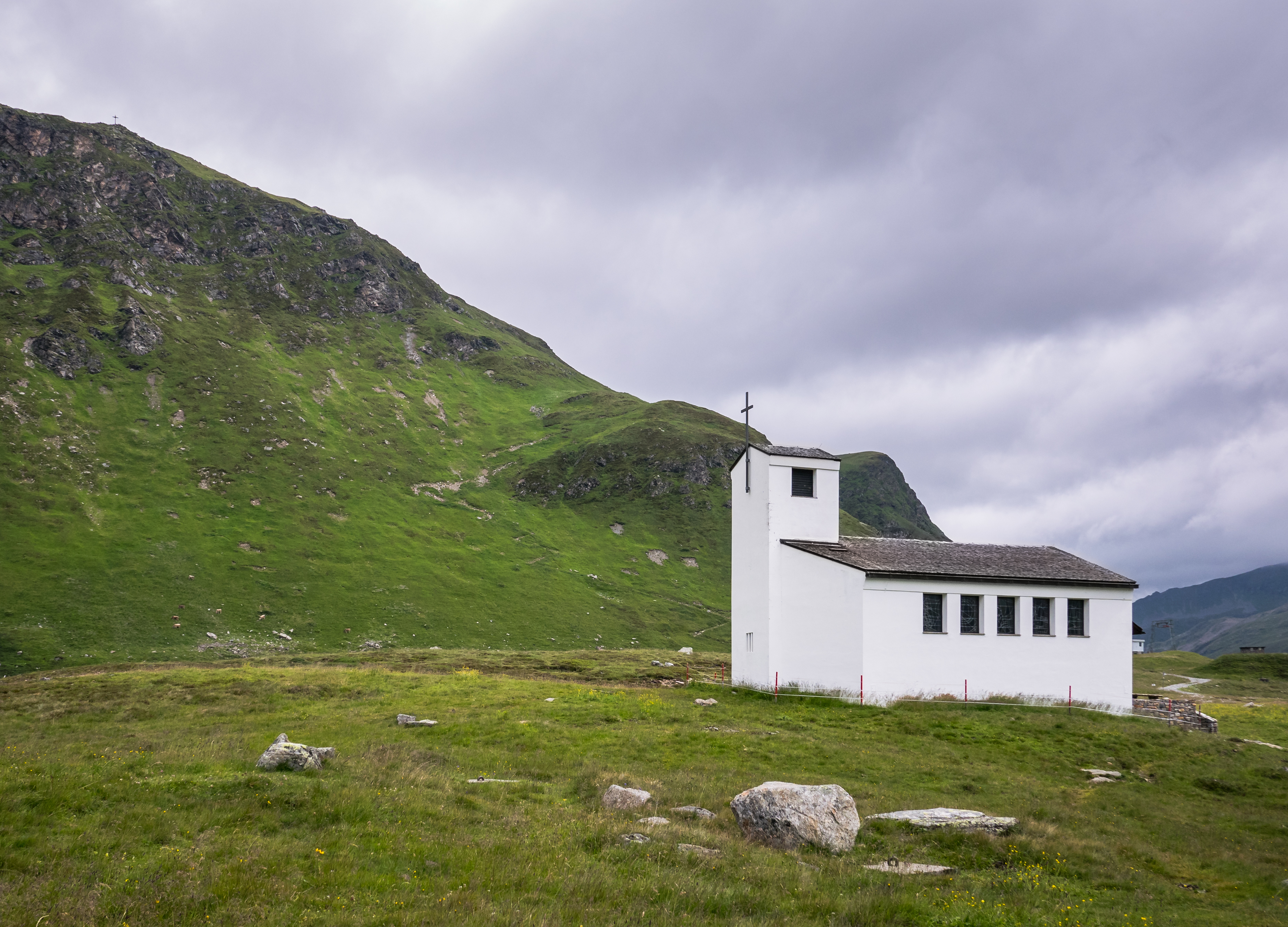 Barbara Chapel above the Bielerhöhe mountain pass; summit of Bielerkopf. Vorarlberg, Austria